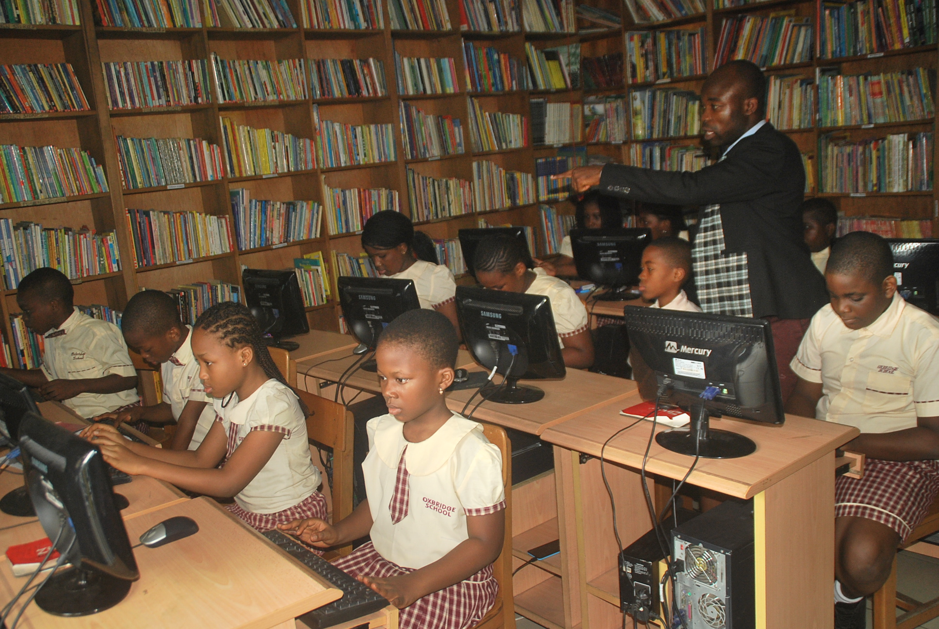 This picture is me teaching school pupils on how to draw using Corel Draw 12. I love teaching, especially, teaching the kids Information Communication Technology. I can never spend a day without passing out knowledge to kids. This is an image of "African people at work" from Nigeria